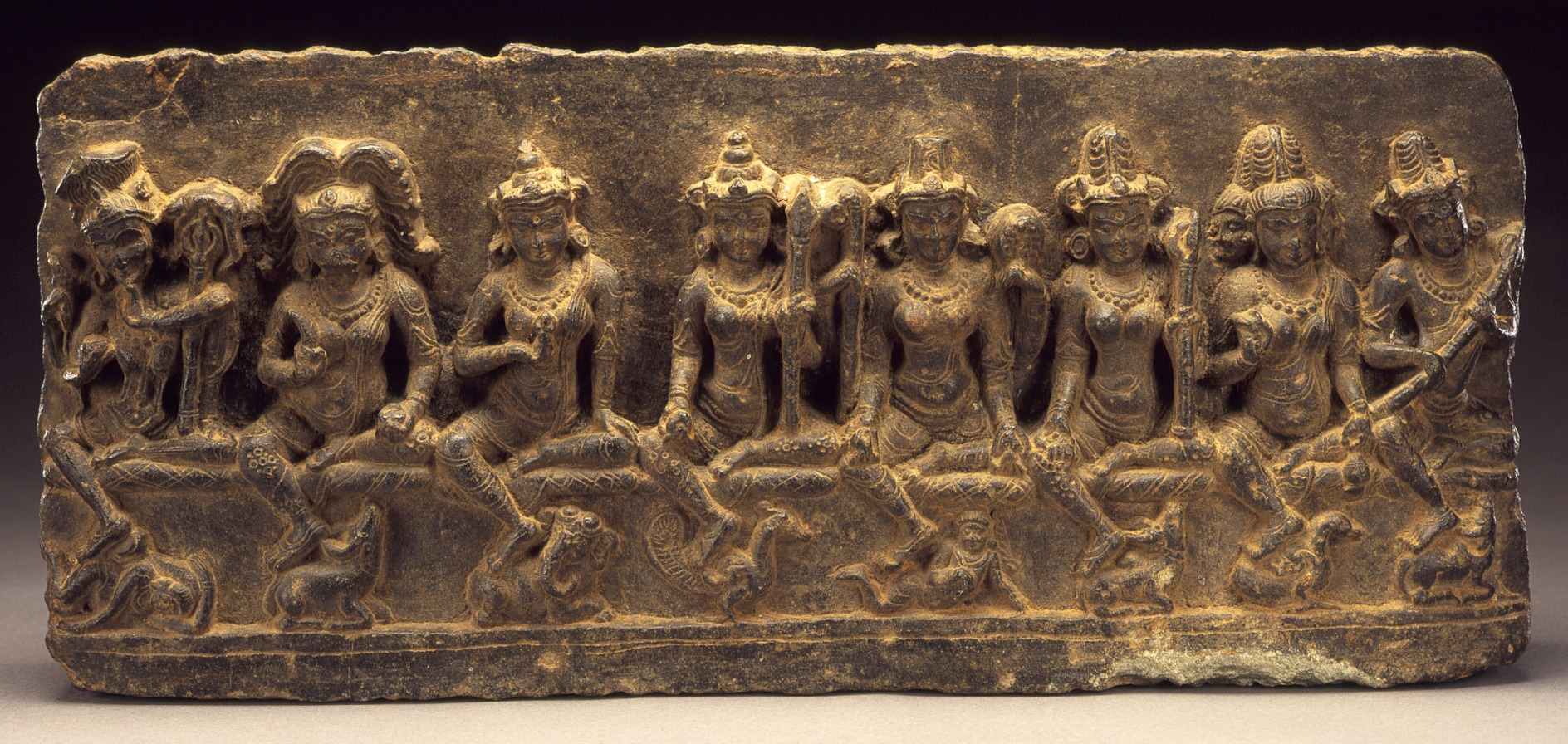 India, Bihar, Patna District, 9th century Sculpture Black chlorite schist Gift of Paul F. Walter (M.71.110.2) South and Southeast Asian Art